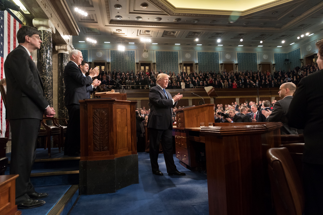 State of the Union 2018 (Official White House Photo by Shealah Craighead)